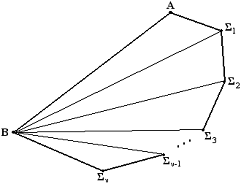 Polyogn inequality